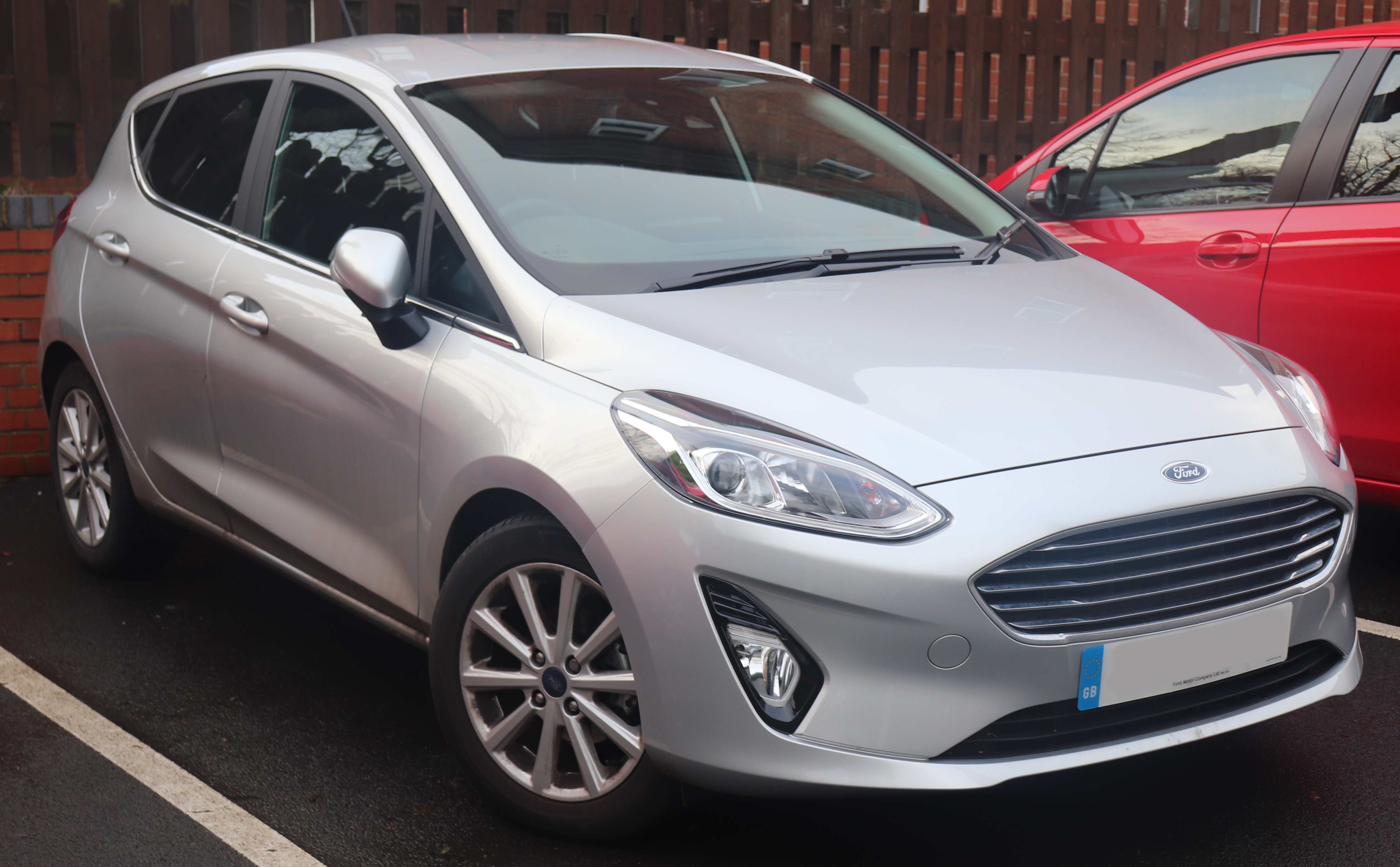 2017 Ford Fiesta Titanium Turbo 1.0 Taken in Leamington Spa